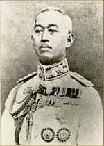 General HH Prince Boworadet